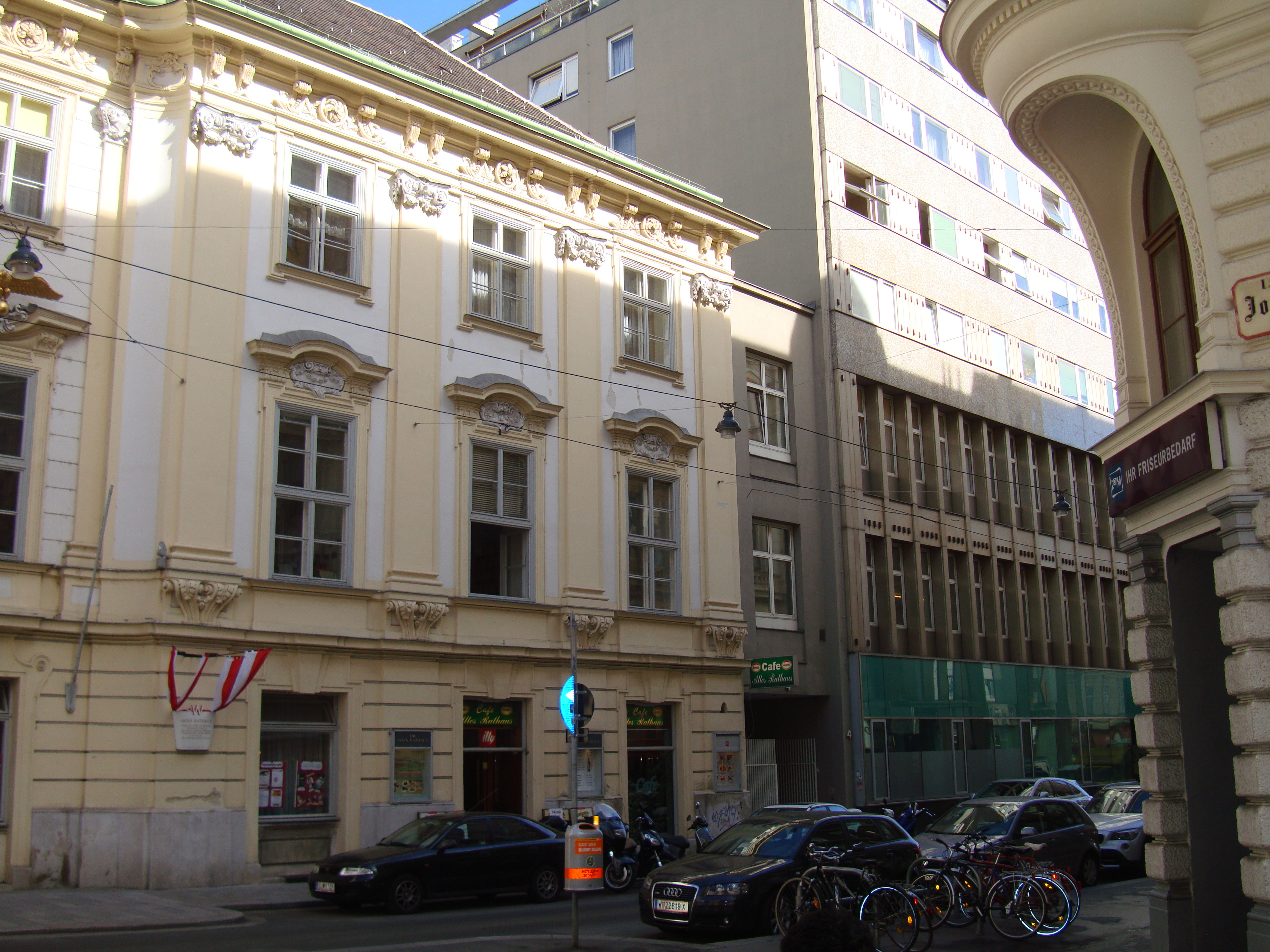 Vienna Altes Rathaus2